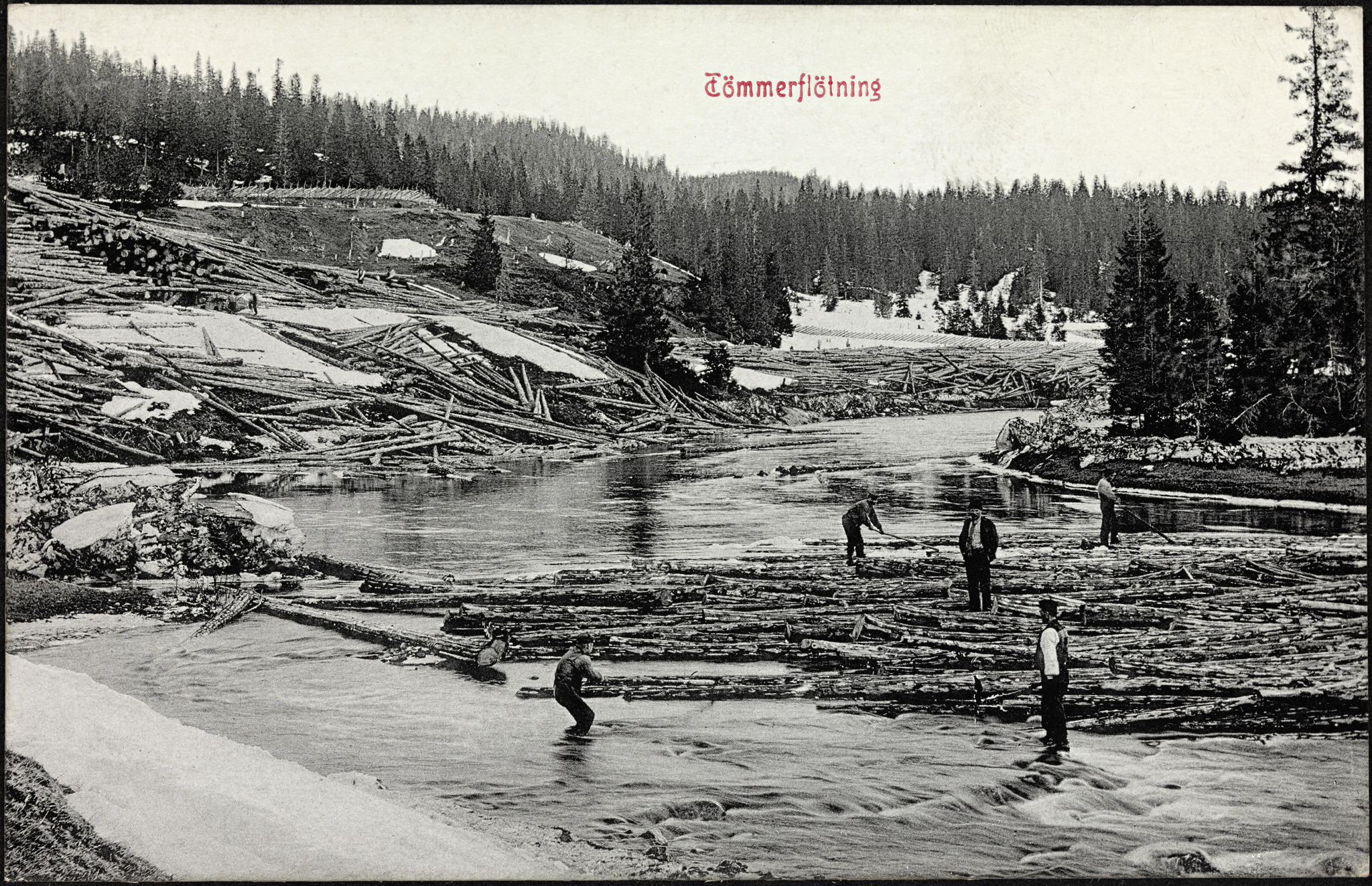 Tittel / Title: Tömmerflötning Beskrivelse / Description: Postkort. Dato / Date: ukjent / unknown Fotograf / Photographer: ukjent / unknown Utgiver / Publisher: N. K. Sted / Place: ukjent / unknown Eier / Owner Institution: Nasjonalbiblioteket / National Library of Norway Lenke / Link: Bildesignatur / Image Number: blds_05702